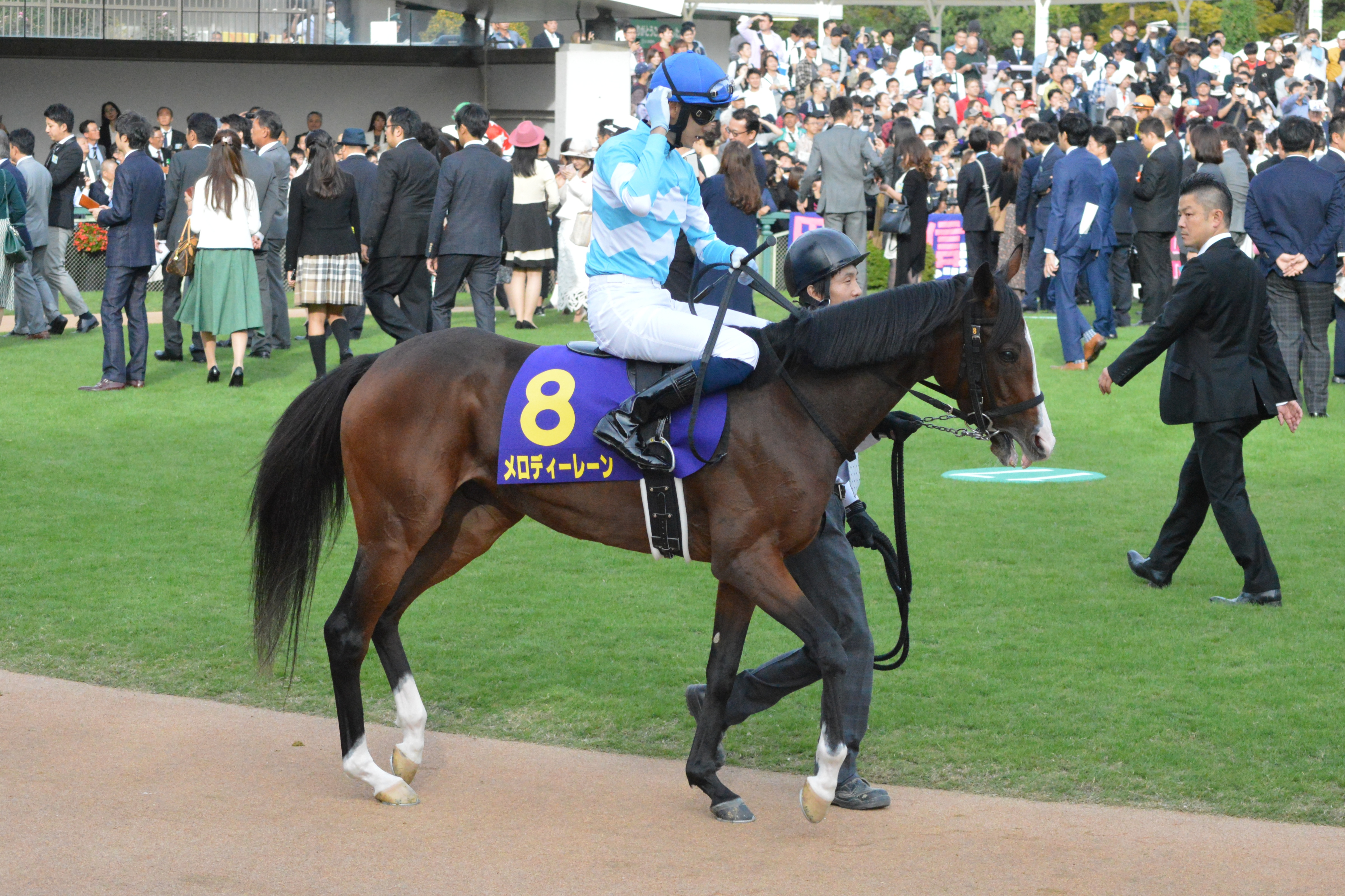 Japanese race horse Melody Lane at Kyoto racecourse. Kyoto (JPN) 20 Oct 2019Kikuka Sho (Japanese St.Leger) (Grade 1) (3yo Colts & Fillies) (Turf) 1m7f Firm RankHorse NameOddsAgeWgtJockeyTrainer1stWorld premiere (JPN)55/10C39-0Yutaka TakeYasuo Tomomichi5thMelody Lane (JPN)64/1F38-9Ryusei SakaiNaoyuki MoritaOthers are omitted. (18 horses entered in a race.)